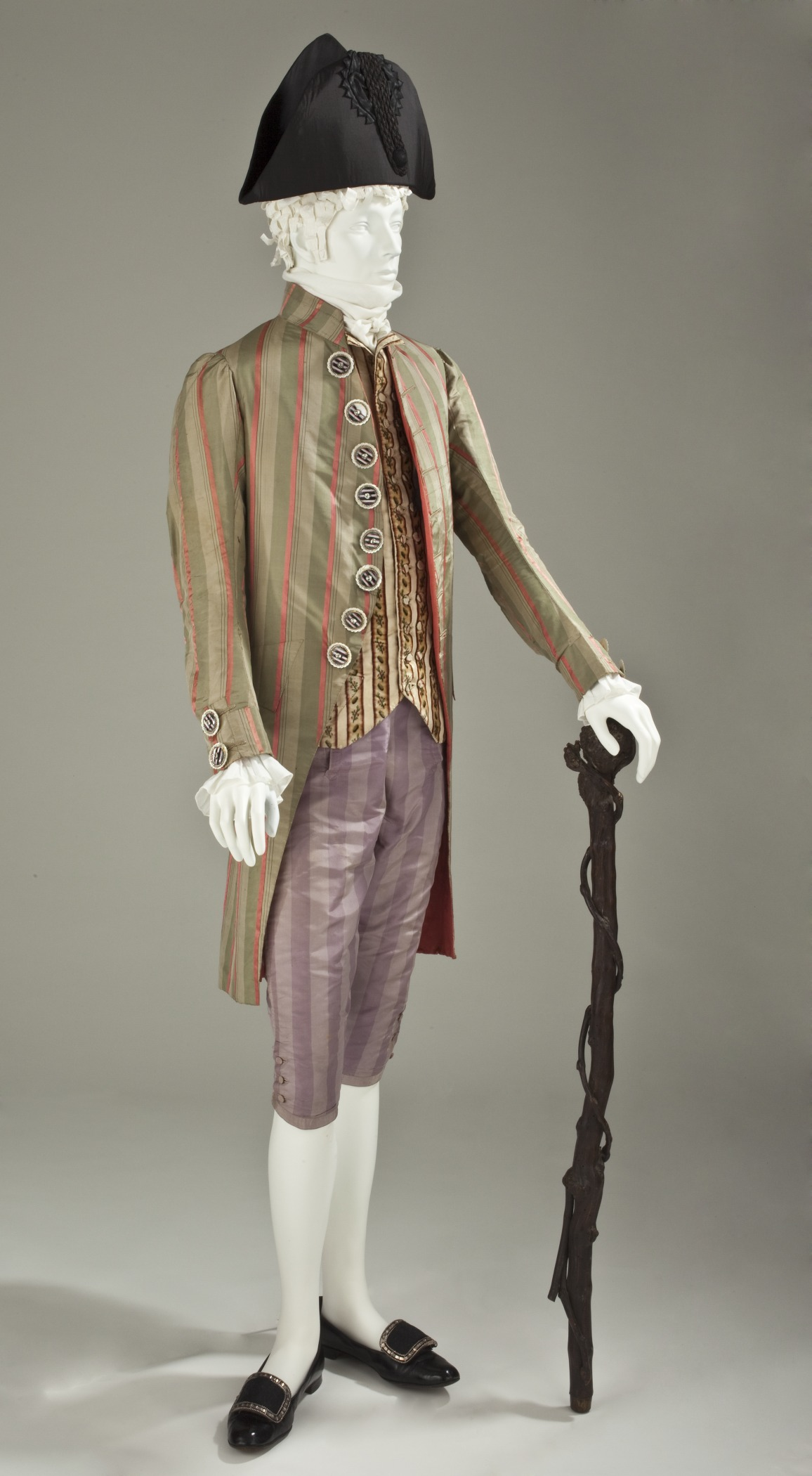 France, 1790-1795 Costumes Wood Diameter (at handle): 3 1/2 in. (8.89 cm); Height: 34 x . (86.36 x ) Purchased with funds provided by Suzanne A. Saperstein and Michael and Ellen Michelson, with additional funding from the Costume Council, the Edgerton Foundation, Gail and Gerald Oppenheimer, Maureen H. Shapiro, Grace Tsao, and Lenore and Richard Wayne (M.2007.211.831) Costume and Textiles